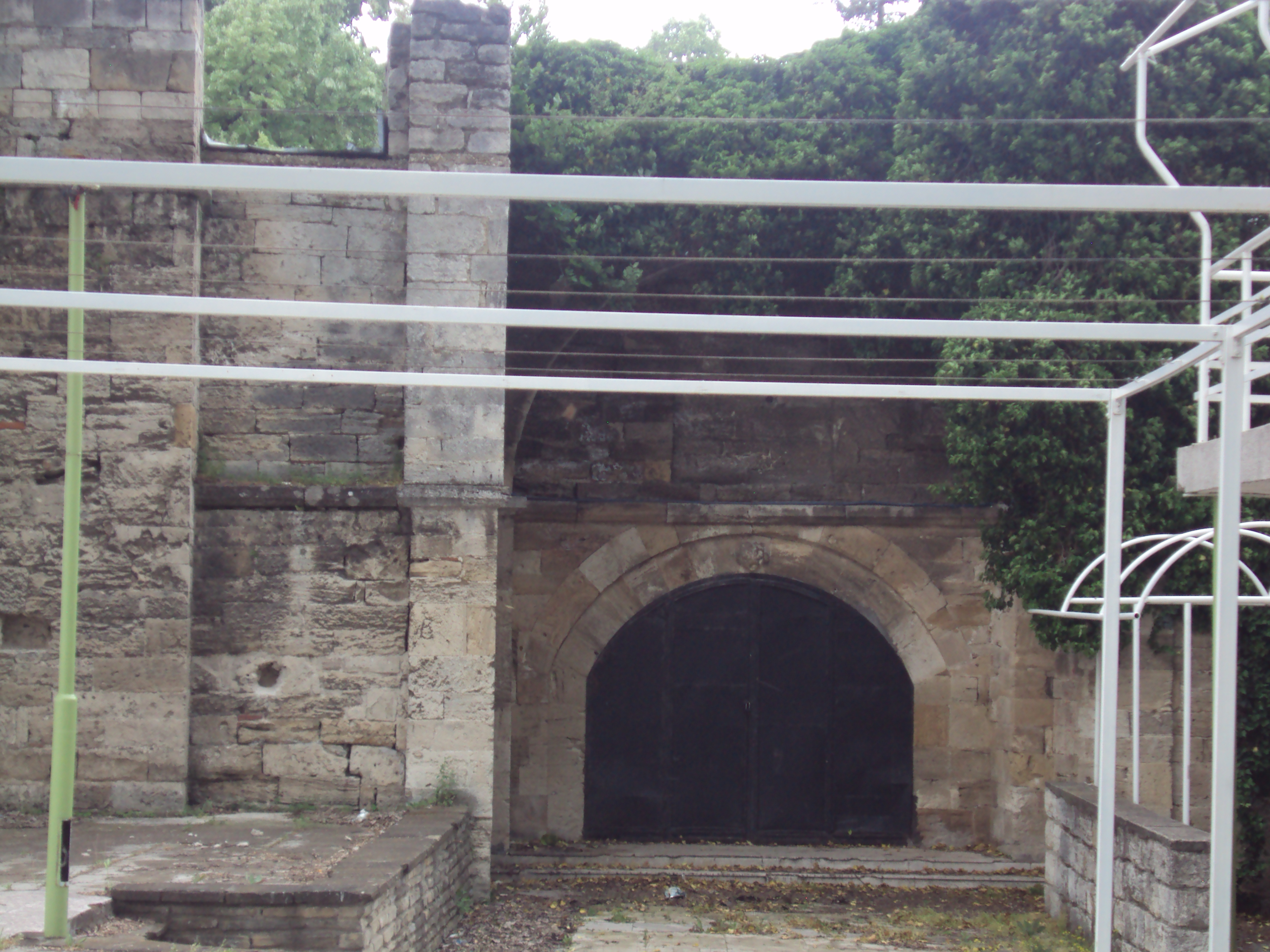 Vidin